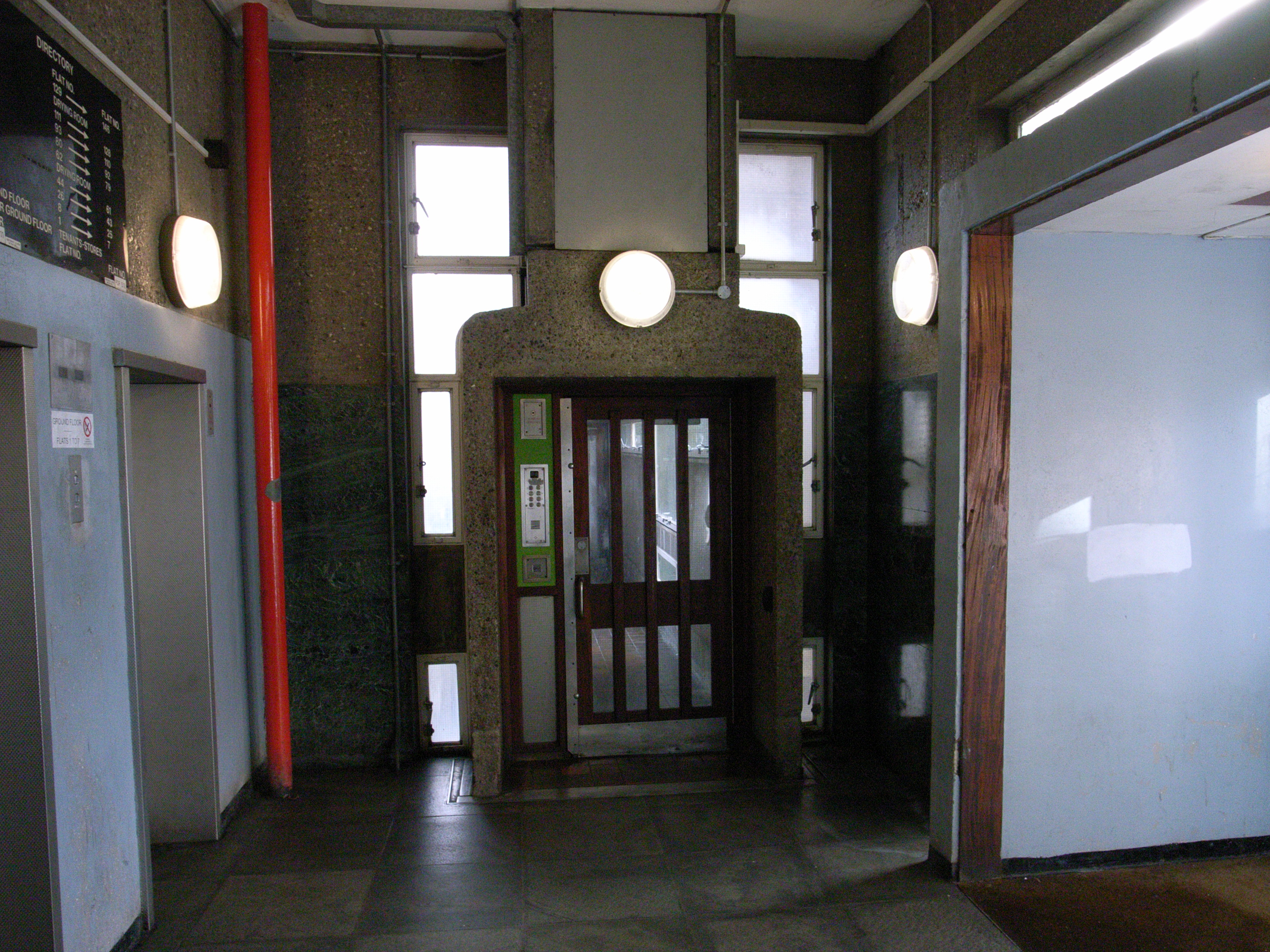 The Lobby of the Balfron Tower (1965-7) by Erno Goldfinger. Note the green marble! Photo taken on a 20th Century Society visit to Robin Hood Gardens and the Balfron Tower on 15/11/2008.